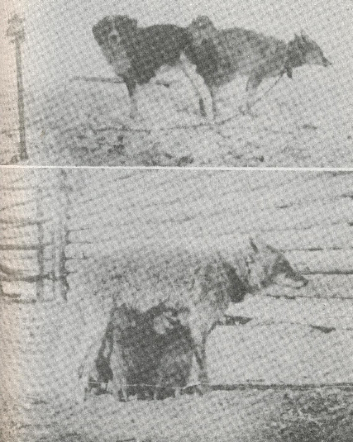 Captive female coyote mating with dog and producing hybrid pups.